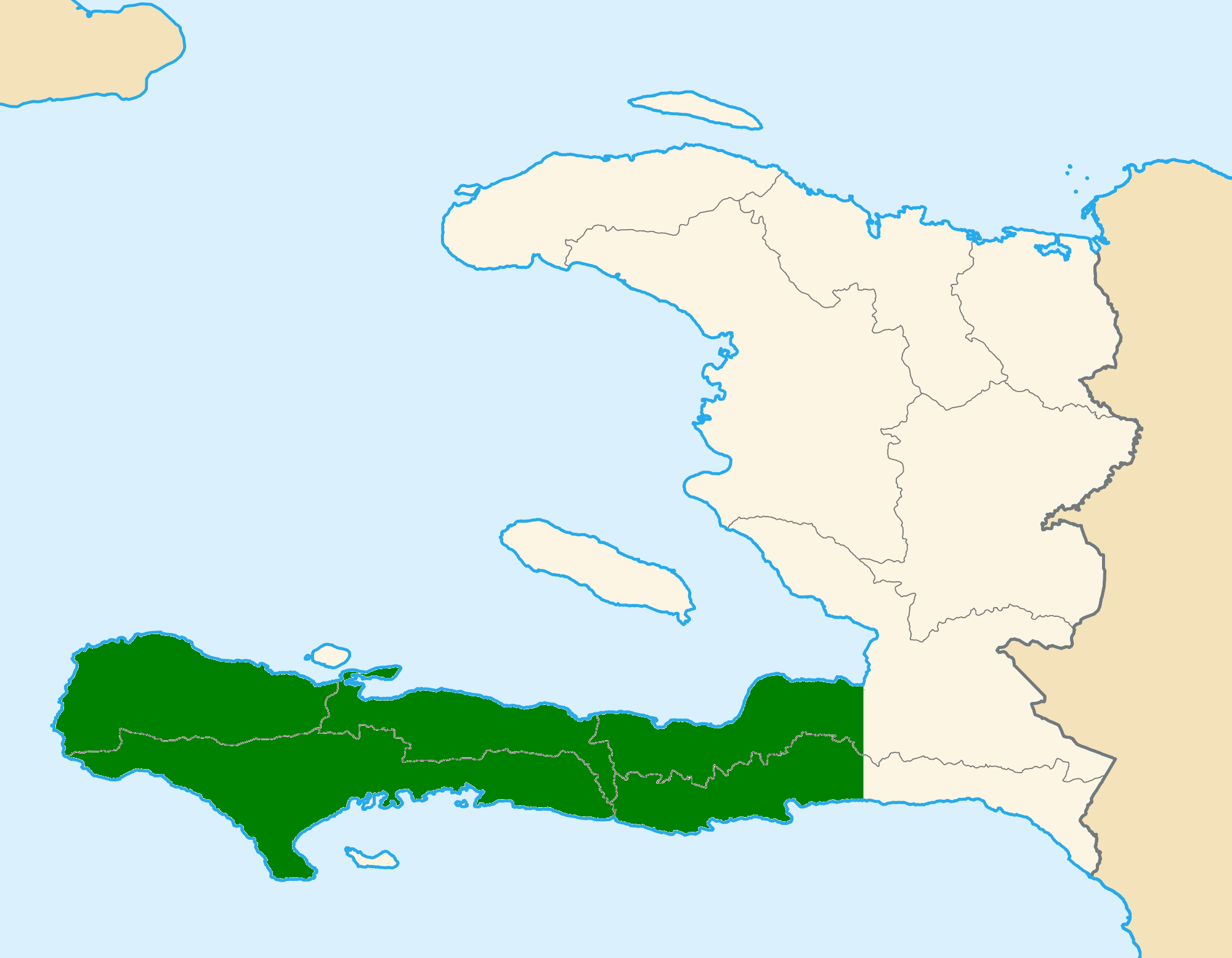 Locator Map of Tiburon Peninsula, Haiti